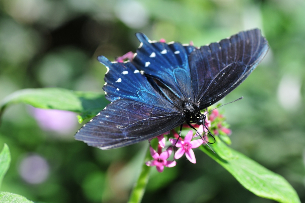 Butterfly from The Living Desert #3